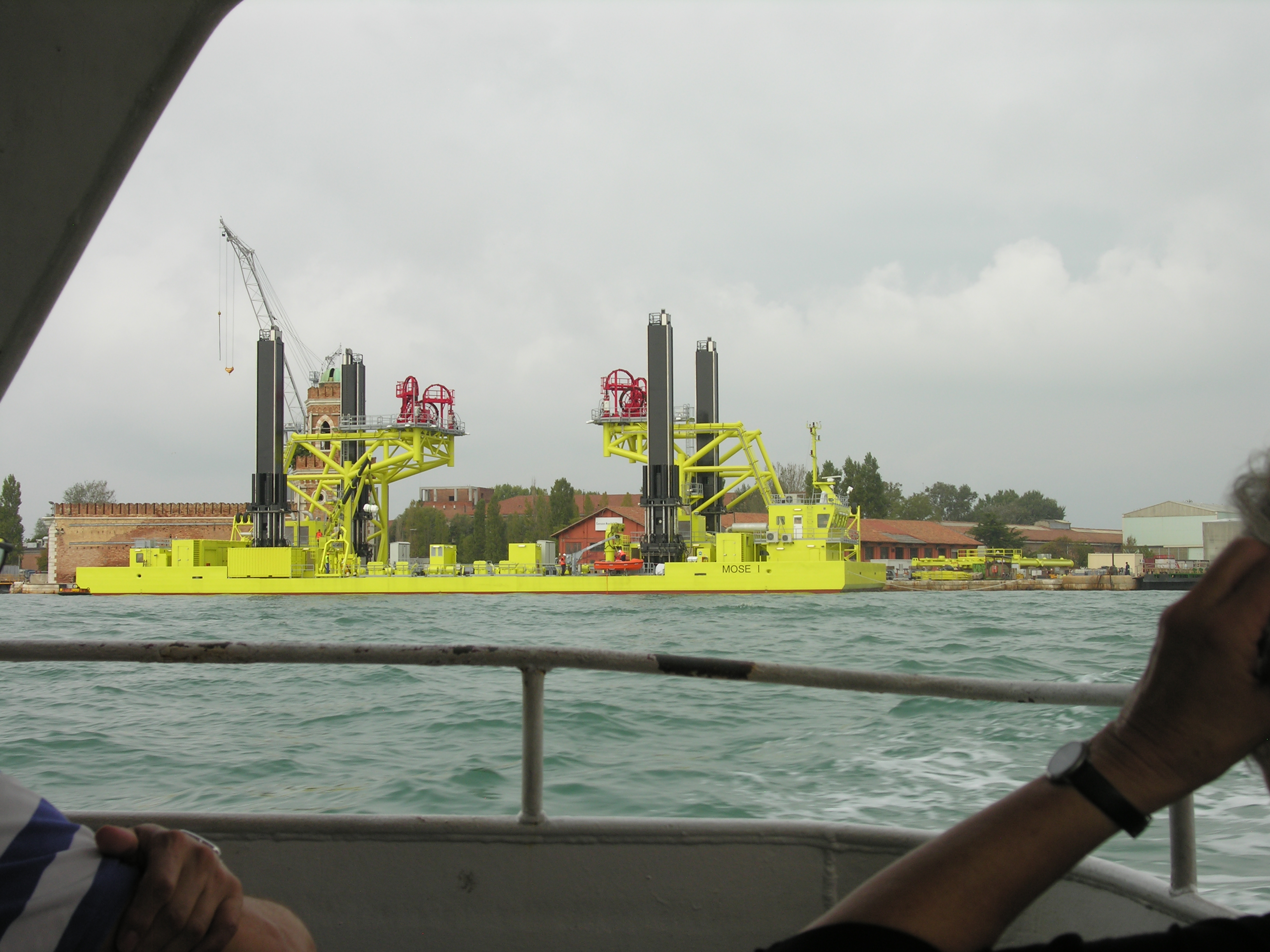 Venice, Italy